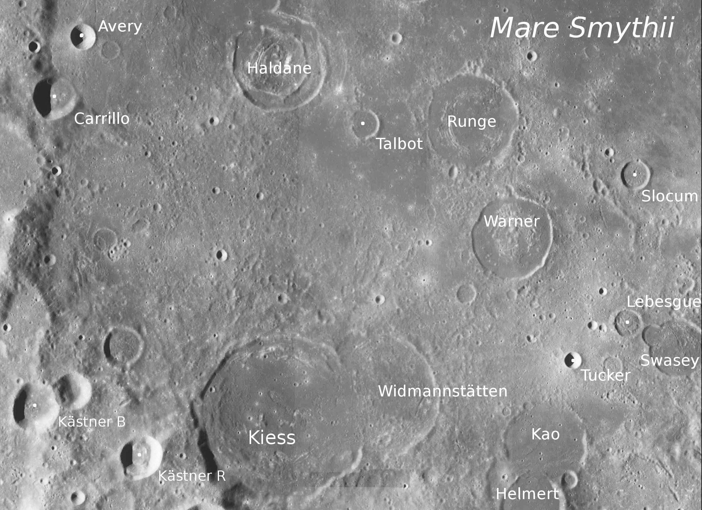 Southern part of Mare Smythii with craters Kiess, Runge, Warner, Haldane and others (detail of LRO - WAC global moon mosaic; Mercator projection)